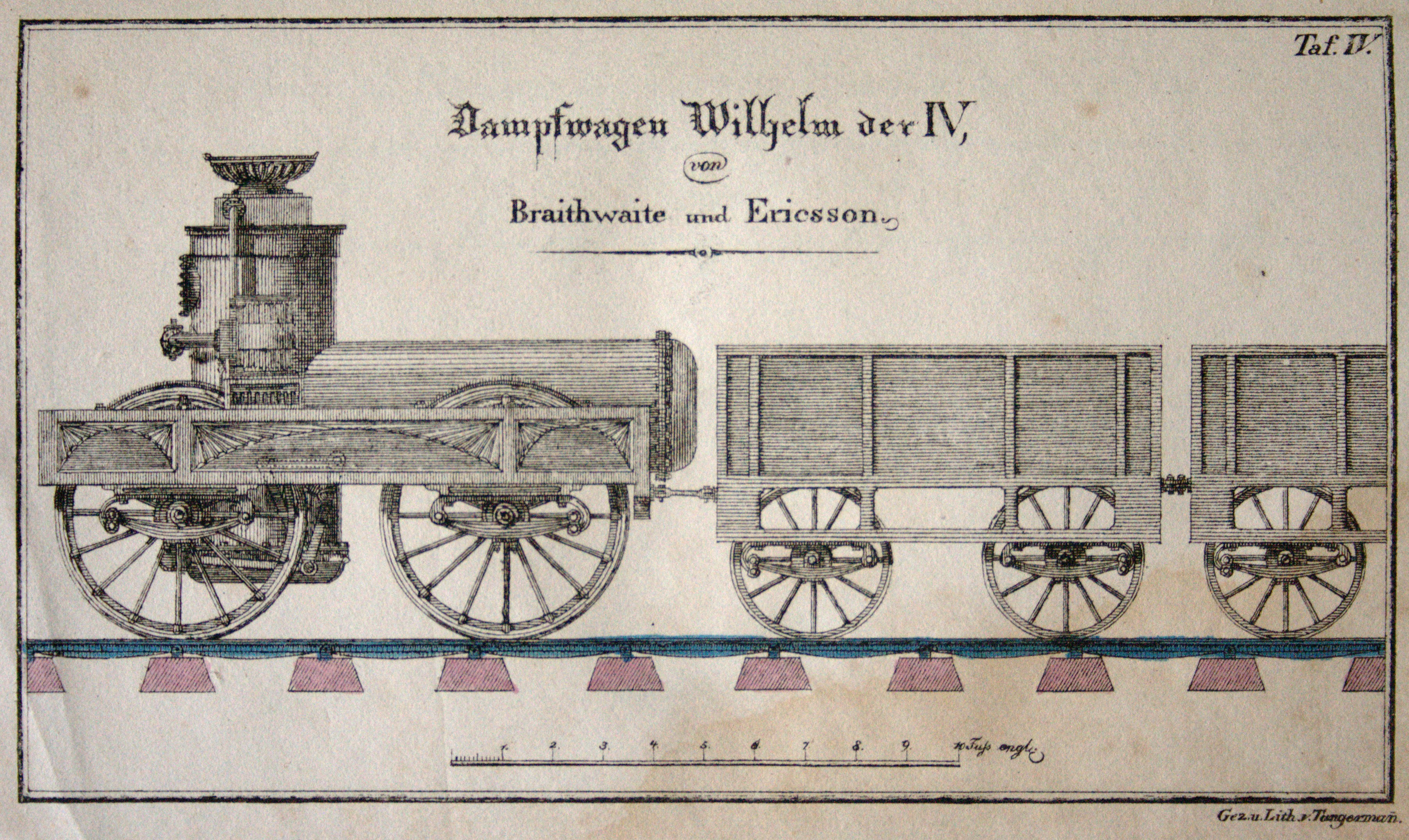 Steam locomotive William IV by Braithwaite and Ericsson. Measurements in feet.